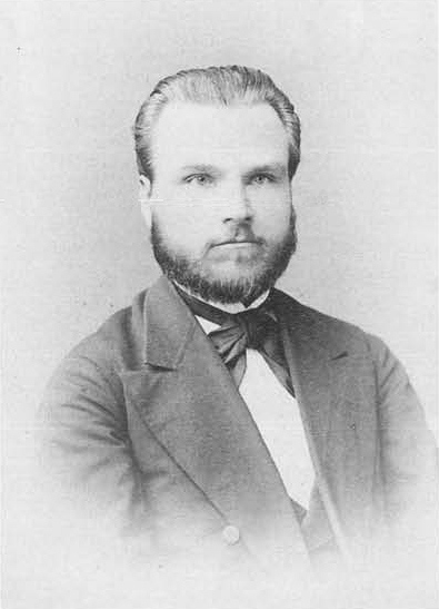 Photograph of the Ingrian composer Mooses Putro (1848–1919).